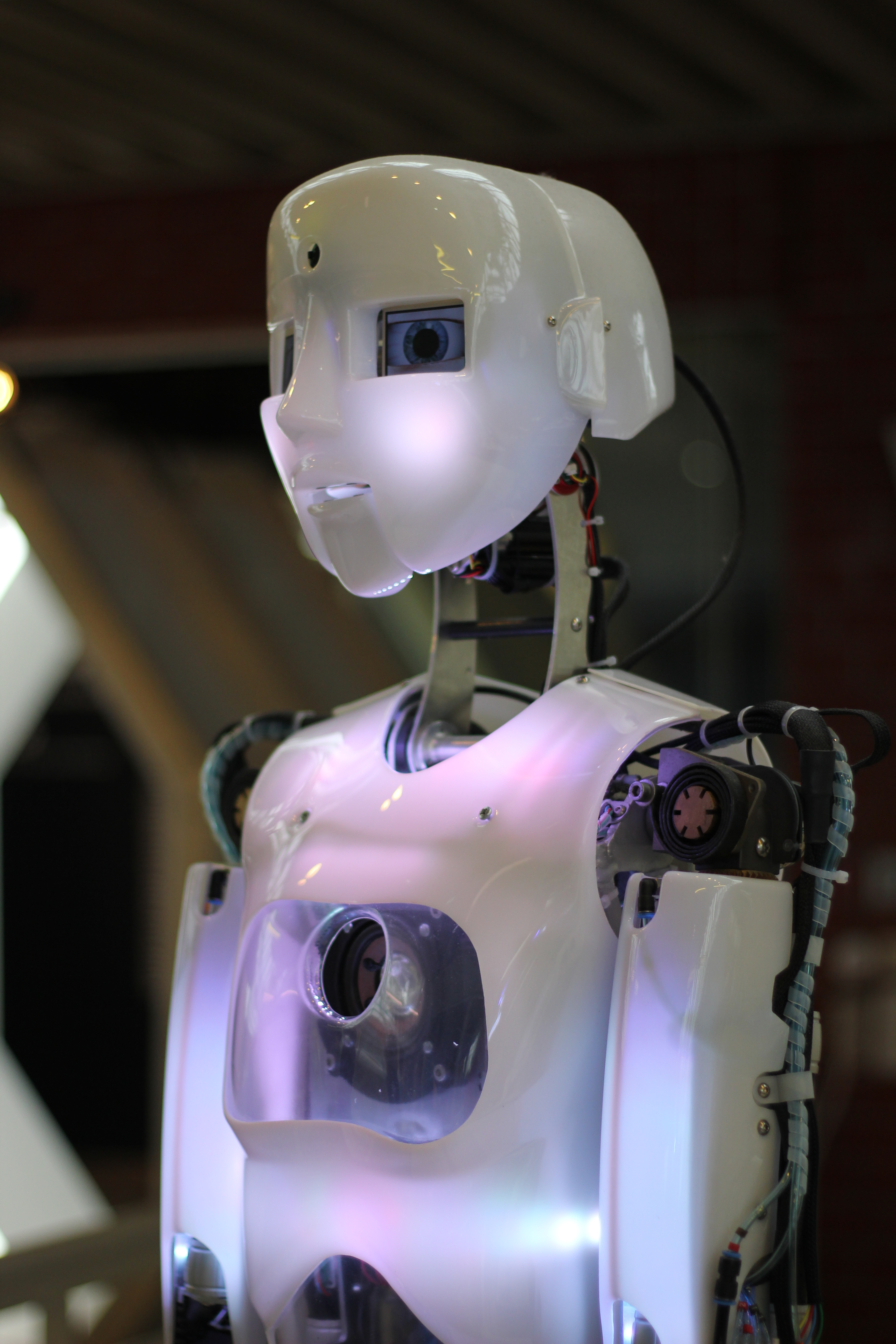 A humanoid roboter in Dortmund's DASA — Arbeitswelt Ausstellung.